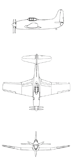 3-side drawing of the Curtiss XBTC-2 "Model B". The "Model A" had a conventional wing, the "Model B" featured a full span Duplex flap wing with a straight trailing edge and a swept-back leading edge. It also had a 3,000 hp Pratt & Whitney XR-4360-8A equipped with contrarotating propellers. Two were built, plus nine similar XBT2C-1s with a Wright R-3350 engine and a single propeller.